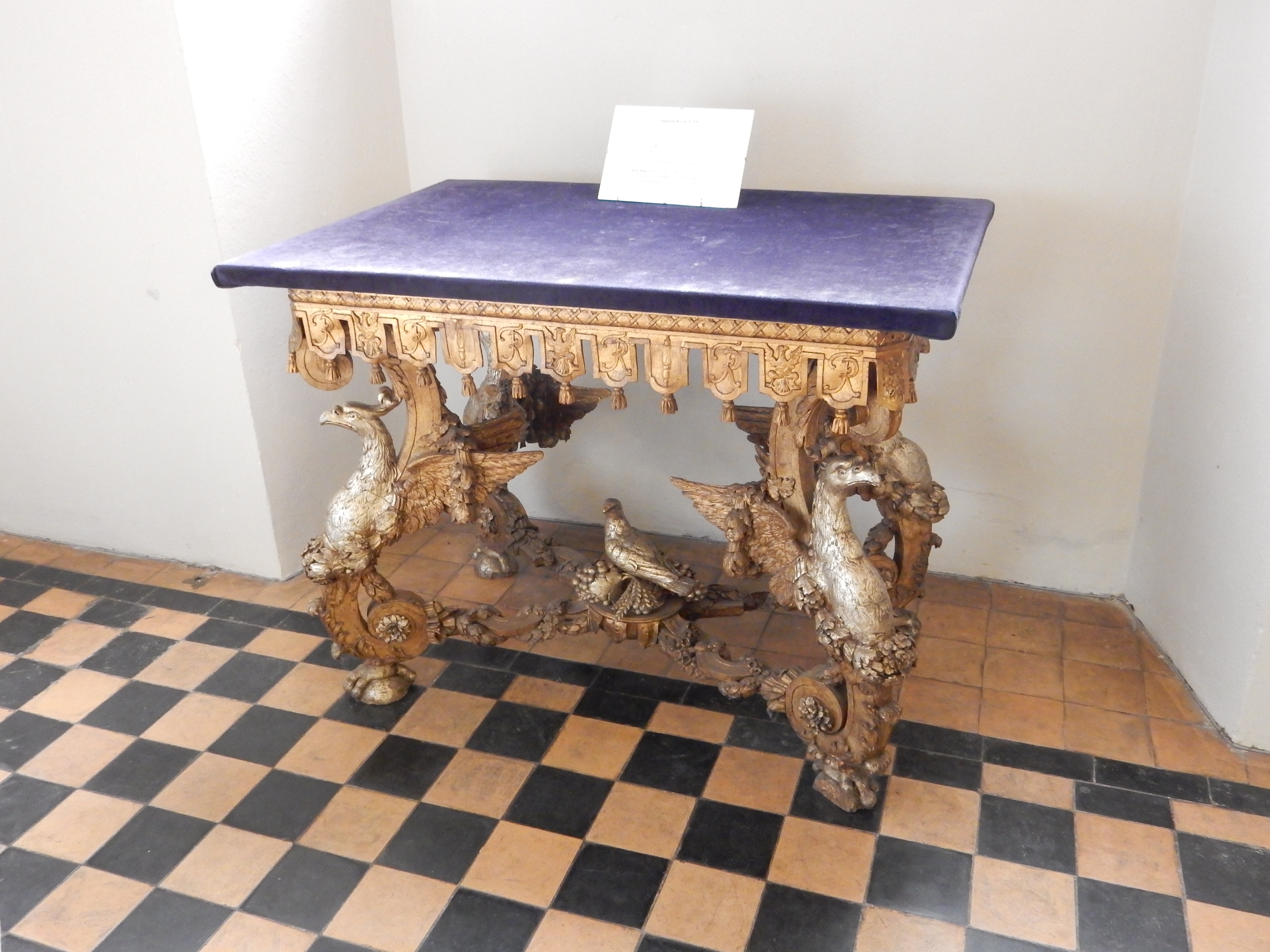 Altar by Charles King for Oranienburg castle (circa 1710), today Kreuzkirche, Koenigs Wutsterhausen, Brandenburg, Germany